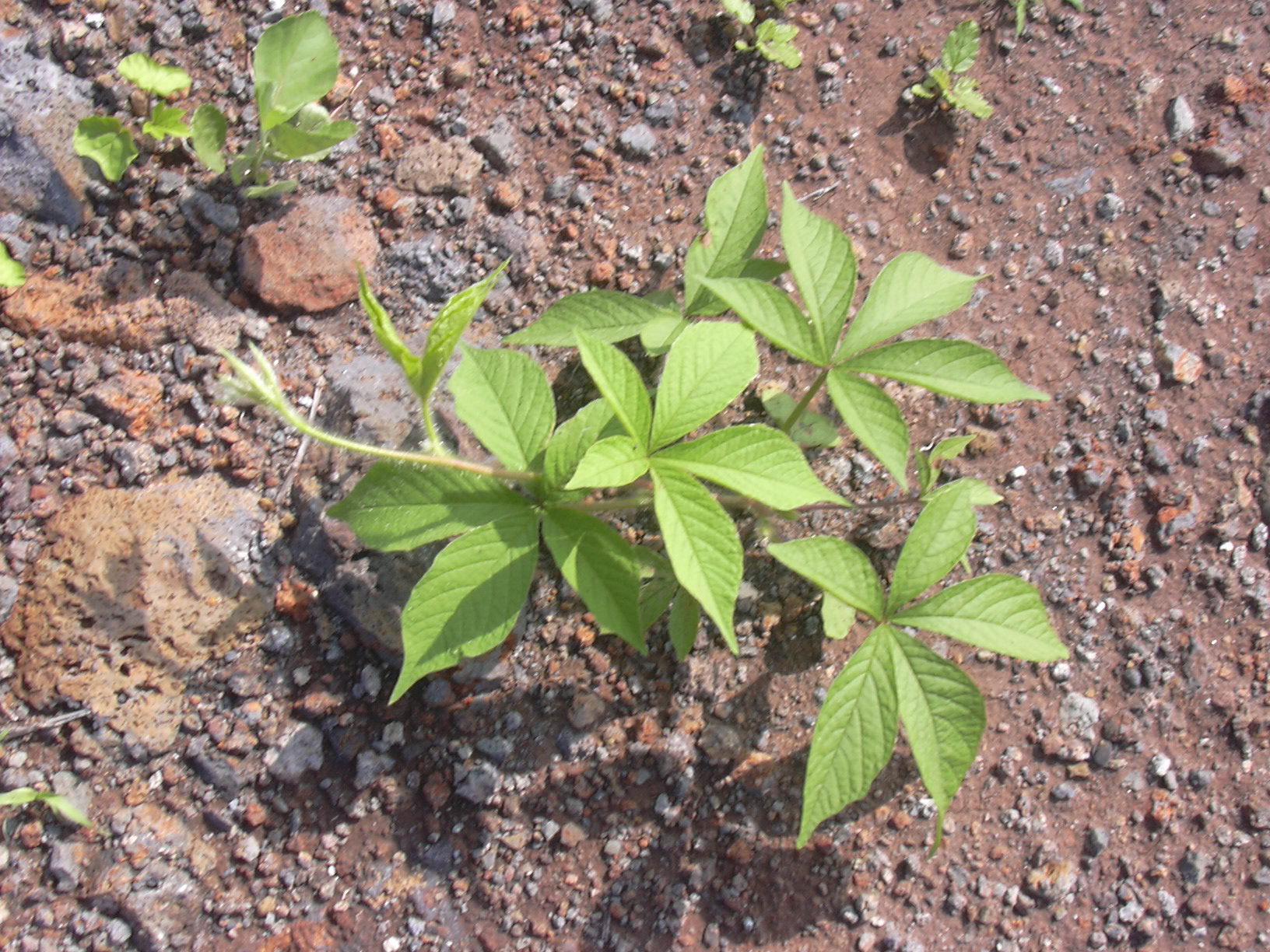 Merremia aegyptia (leaves). Location: Maui, Ukumehame